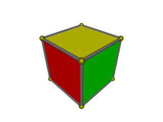 Vertex-first view of the cube, for comparison with projections of the tesseract.